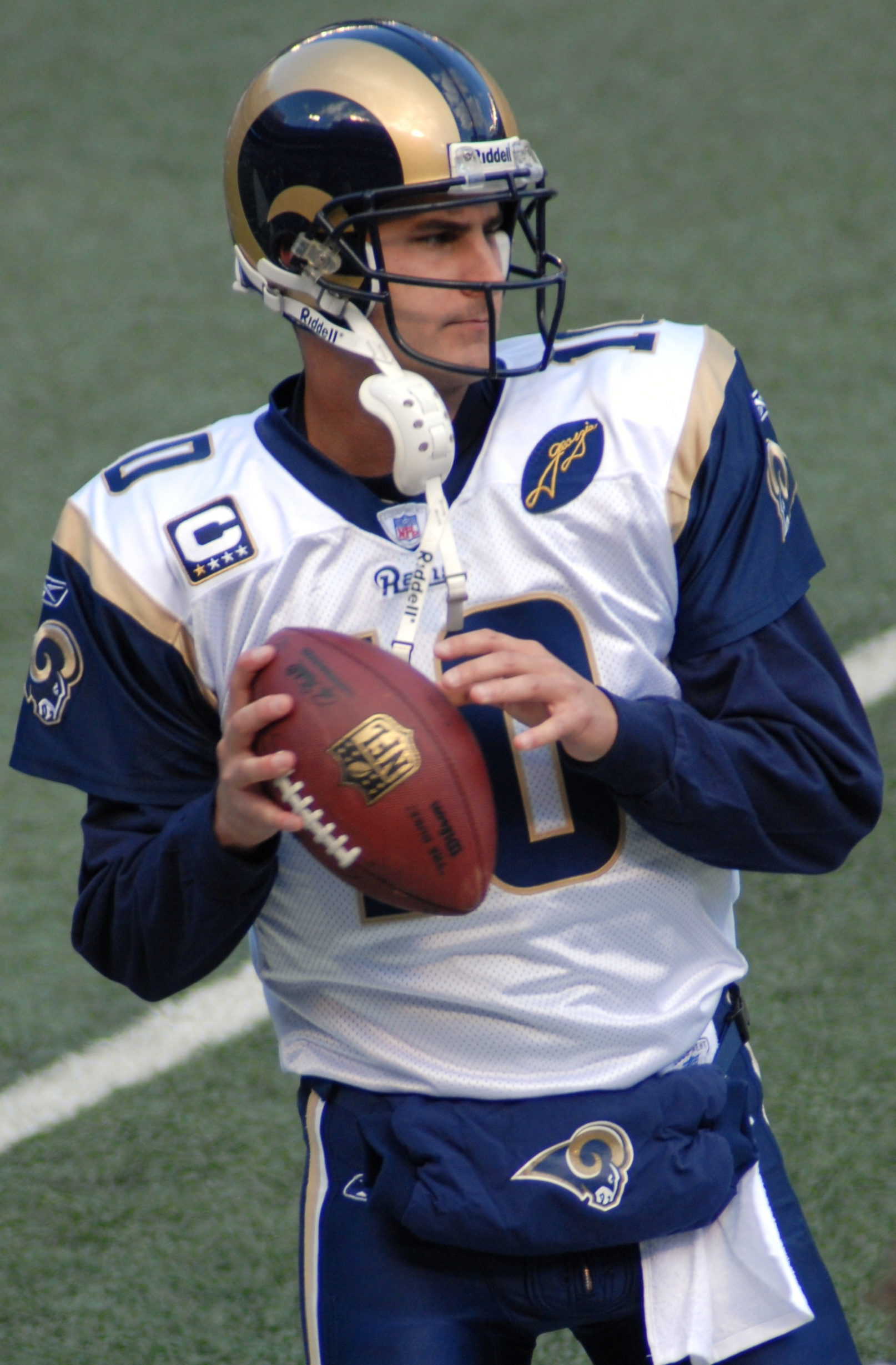 St. Louis Rams quarterback Marc Bulger in the game against the New York Jets on November 9, 2008.